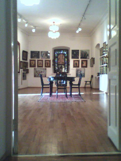 The Parajanov Museum, Yerean